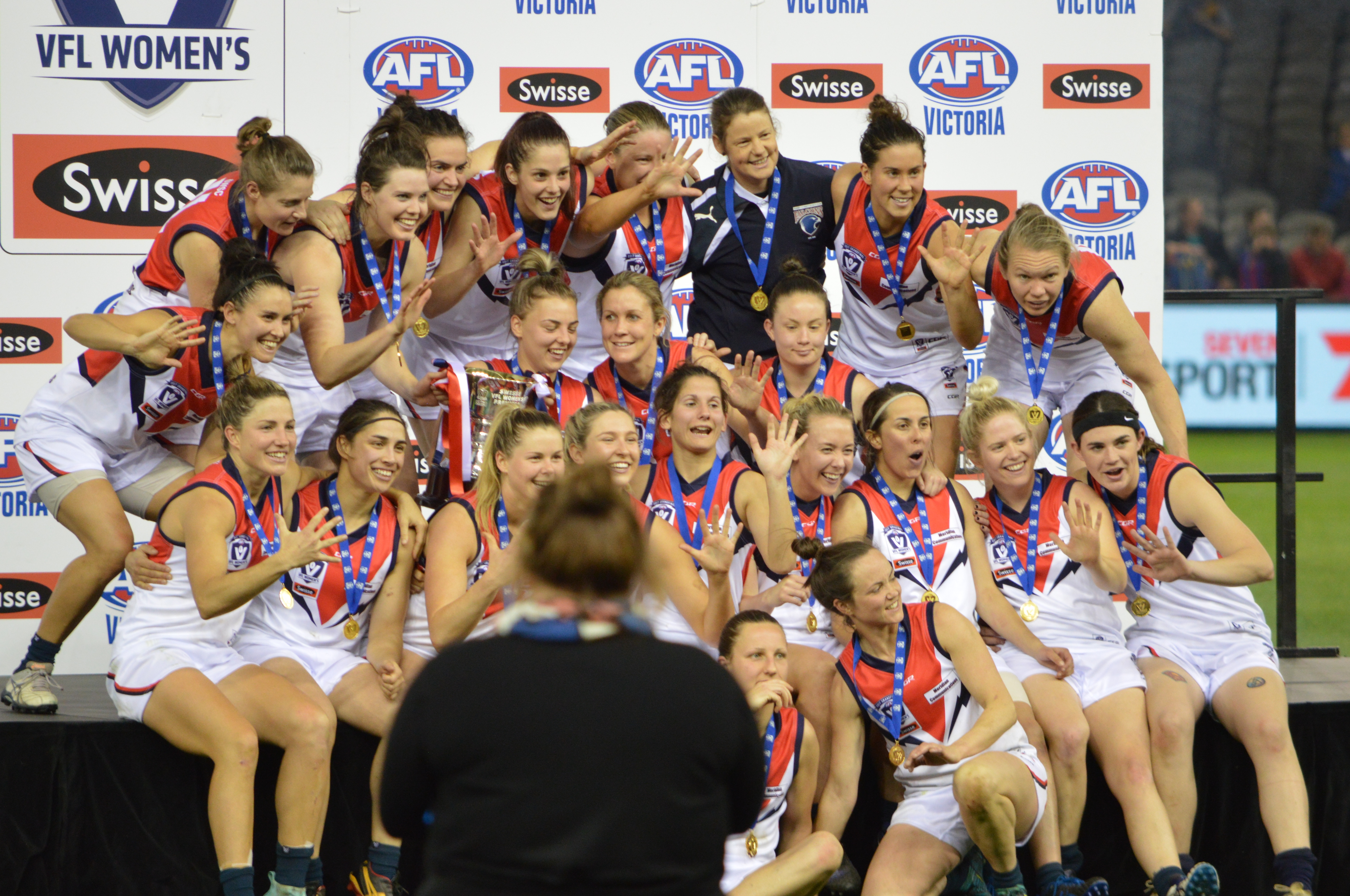 Darebin celebrates the 2017 VFL Women's Grand Final.